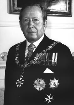 The Hon Sir David Stuart Beattie, GCMG, GCVO, QSO, QC